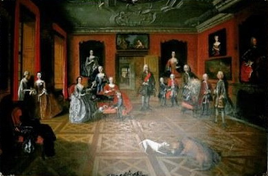 Johann Valentin Tischbein, Family portrait of Carl August Hohenlohe-Kirchberg and his family, 1744-47. Collection Schloss Neuenstein (Hohenlohe).